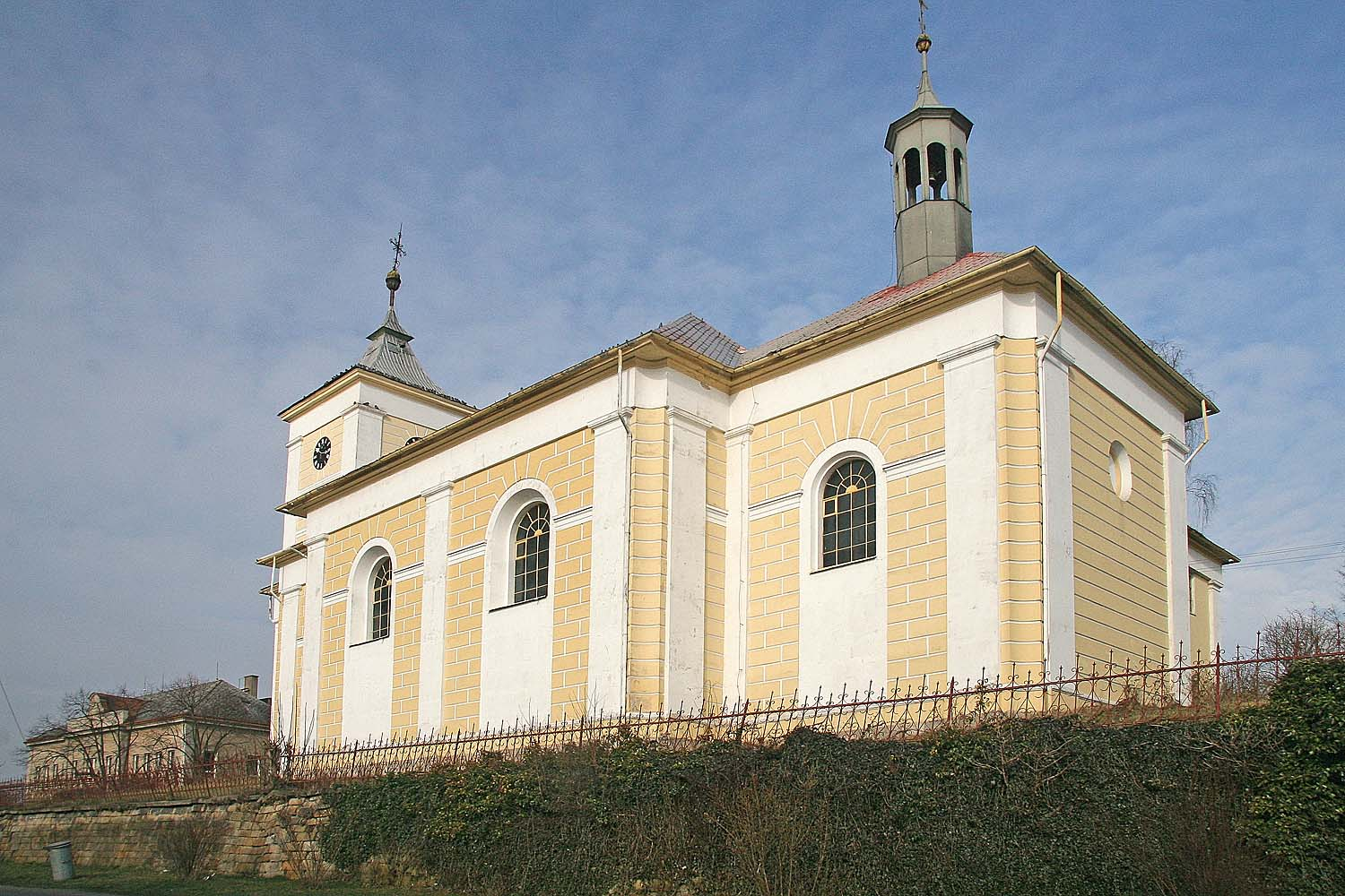 Church of Saint Nicholas of Tolentino in Vysoké Veselí, Jičín District, Czech Republic autor:Prazak date:23. 2. 2007